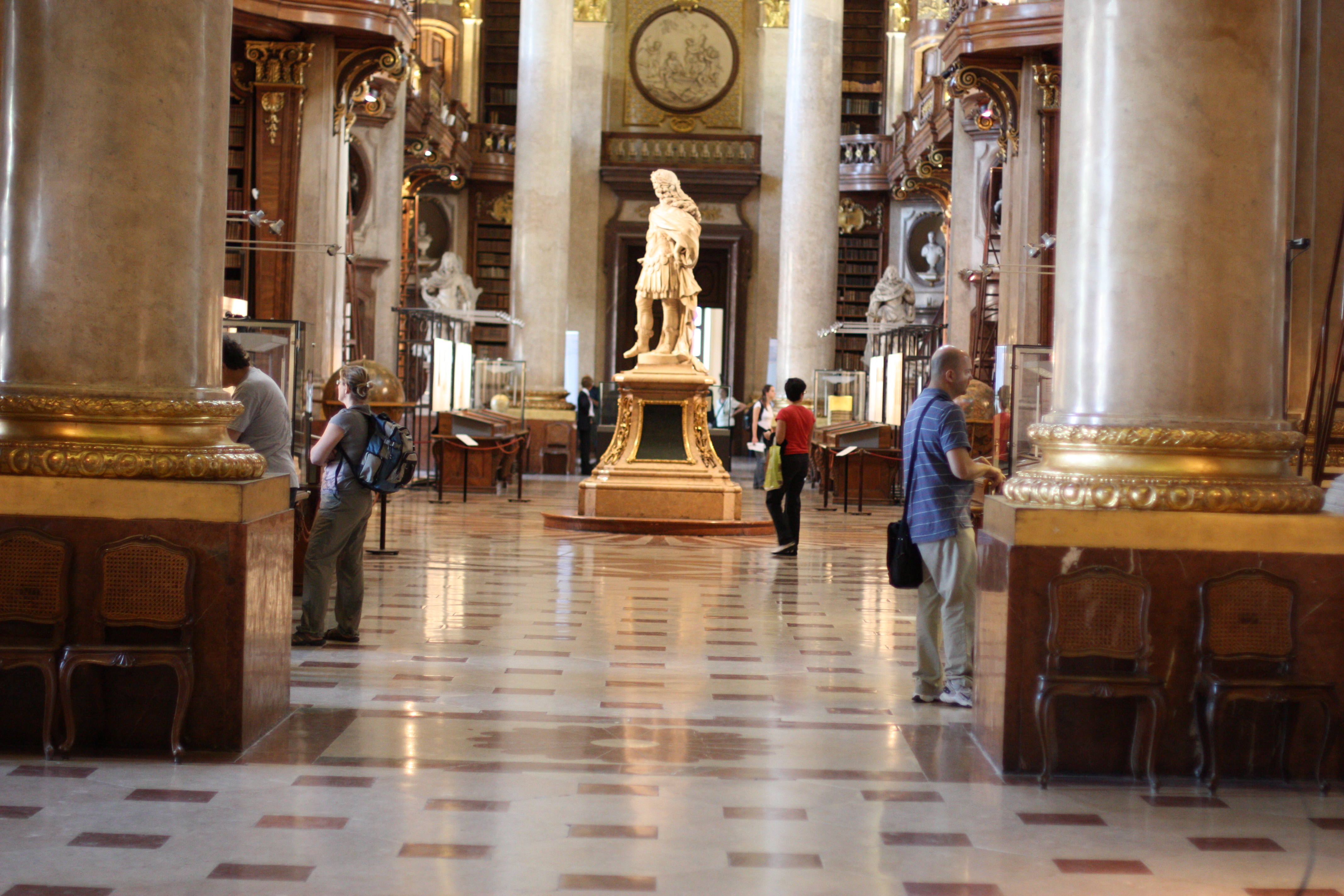 Prunksaal Hofbibliothek Wien, State Hall of the Austrian National Library, Vienna